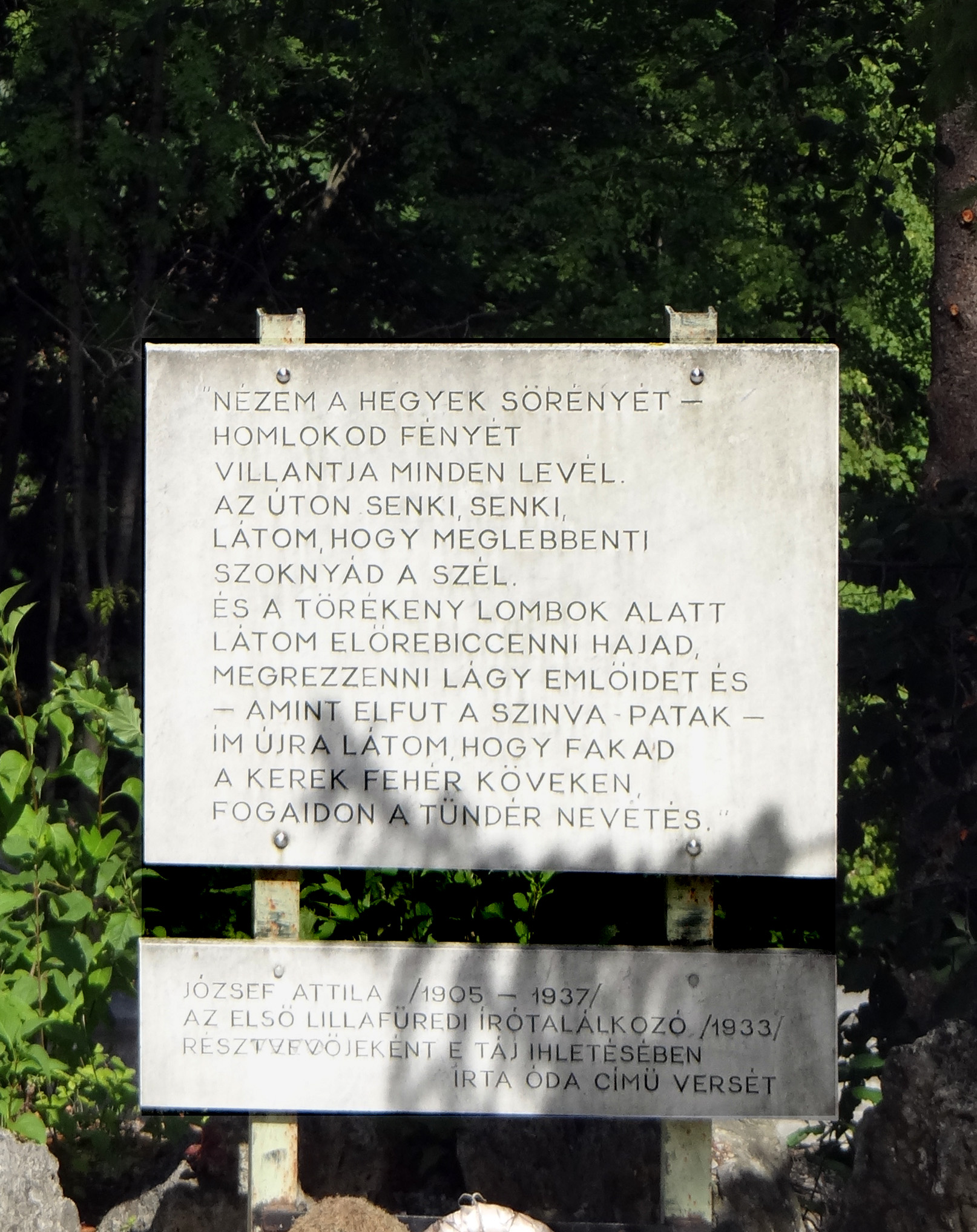 Attila József plaque, Lillafüred, Hungary